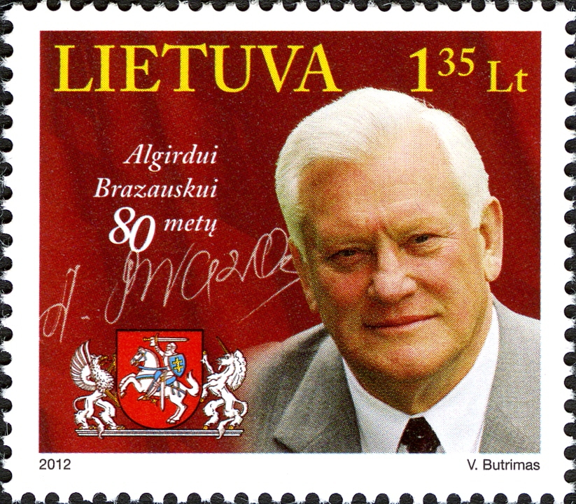 80th Anniversary of Algirdas Brazauskas